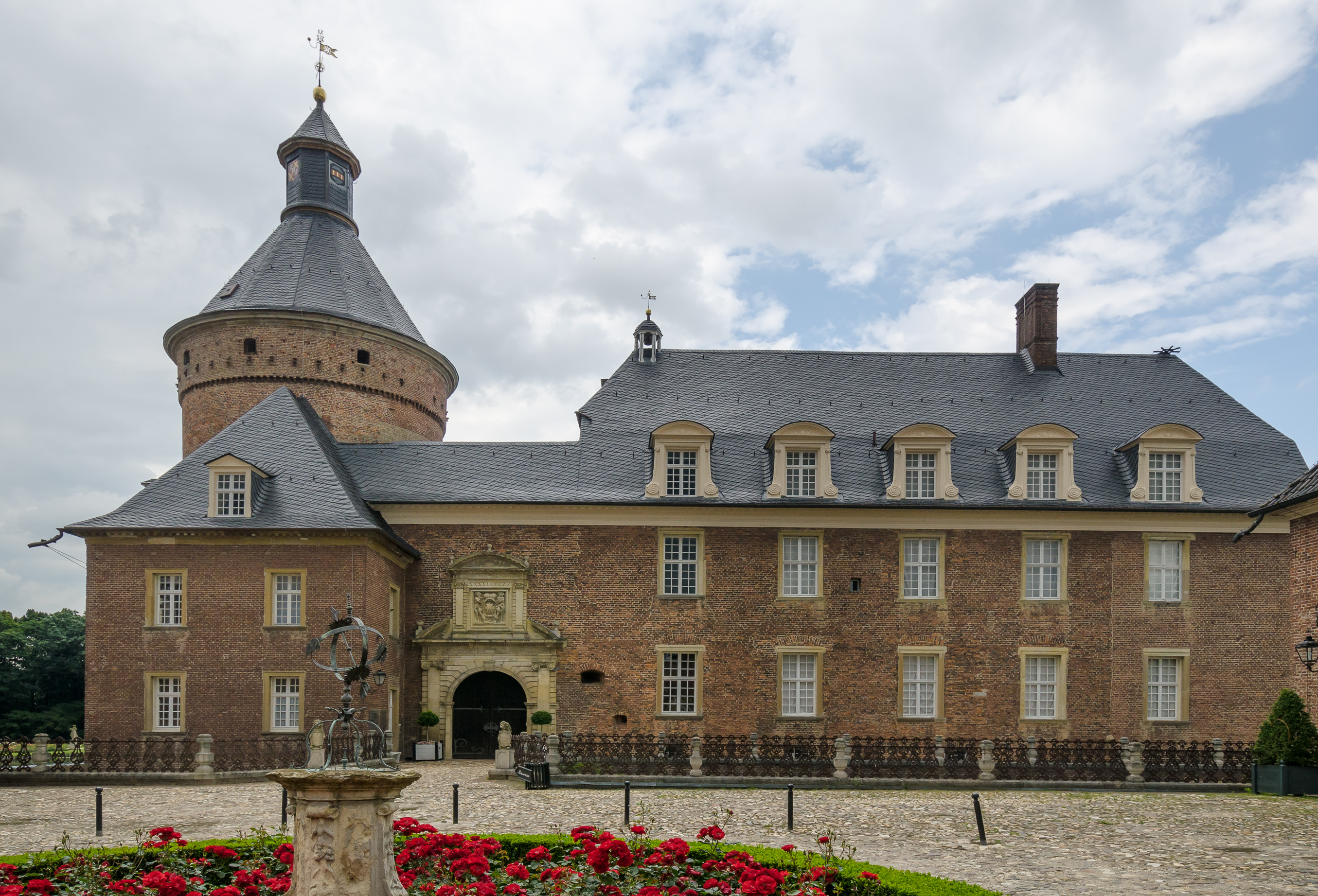 Residence wings of castle Anholt